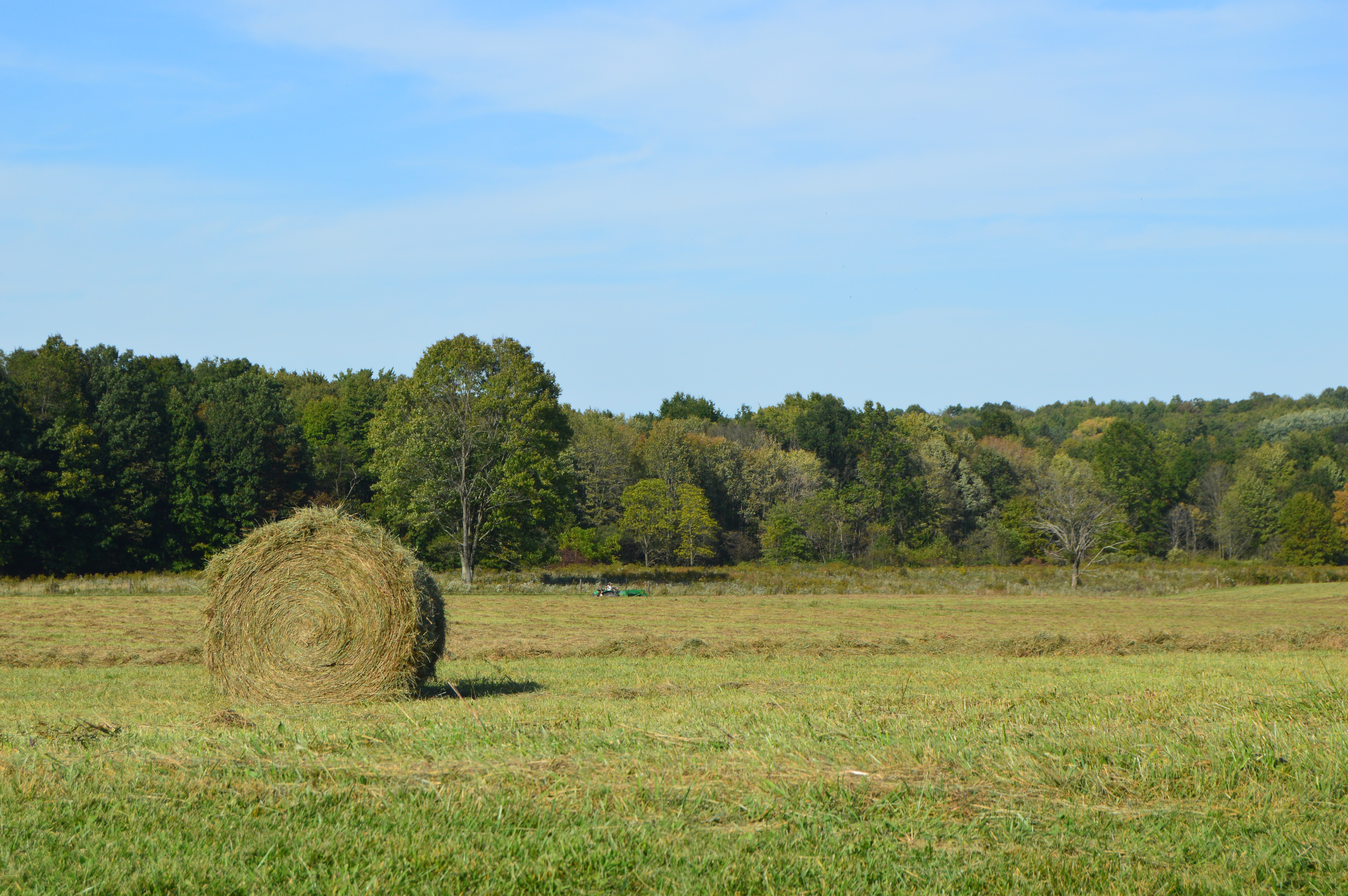 A newly cut hayfield on Pennsylvania Route 258 northwest of Mercer in the southwestern corner of Coolspring Township, Mercer County, Pennsylvania, United States.